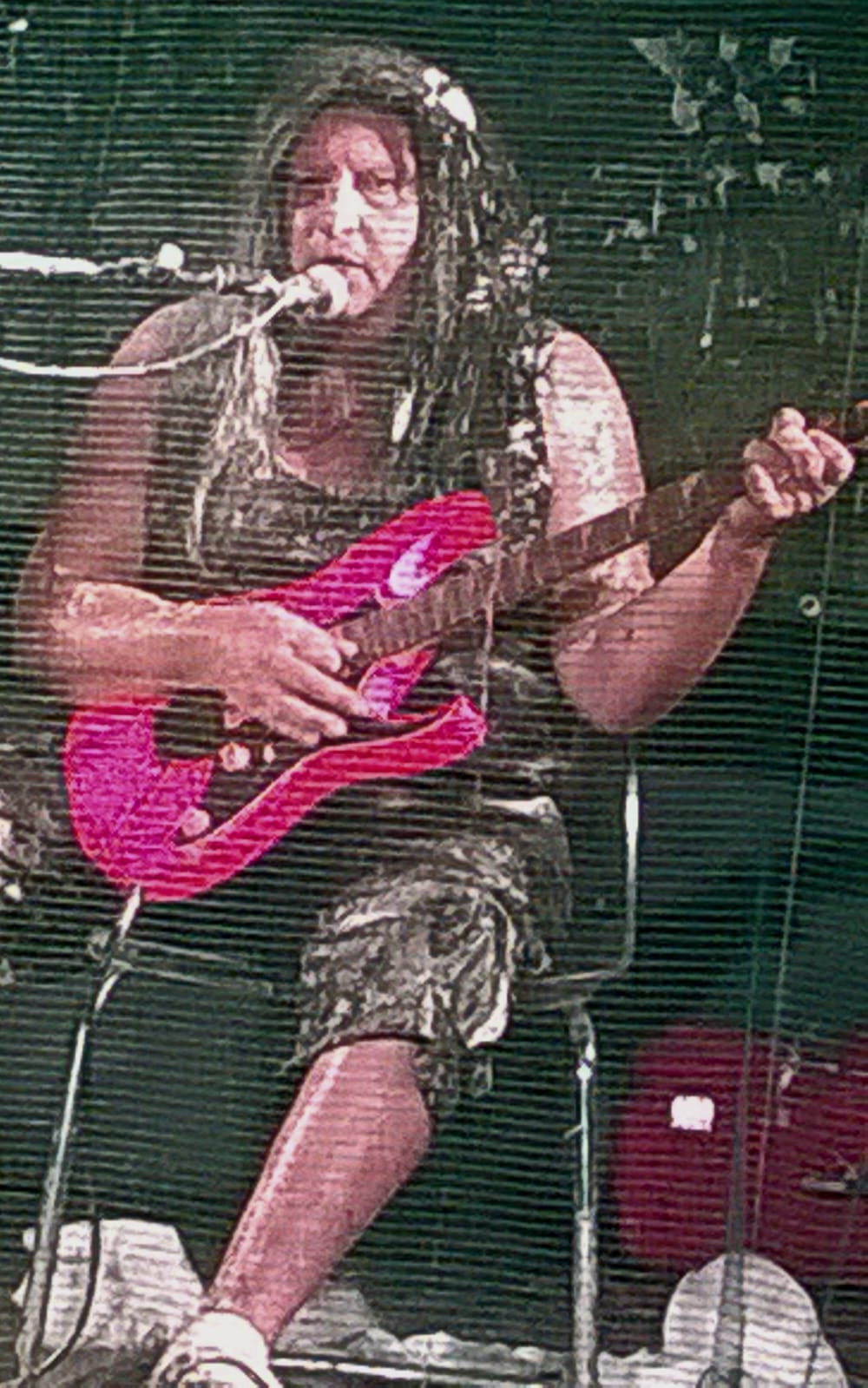 Richard Benson during a show at the Orion Live Club in Ciampino in October 2014, 4th. A net is protecting him from the objects thrown by the public.